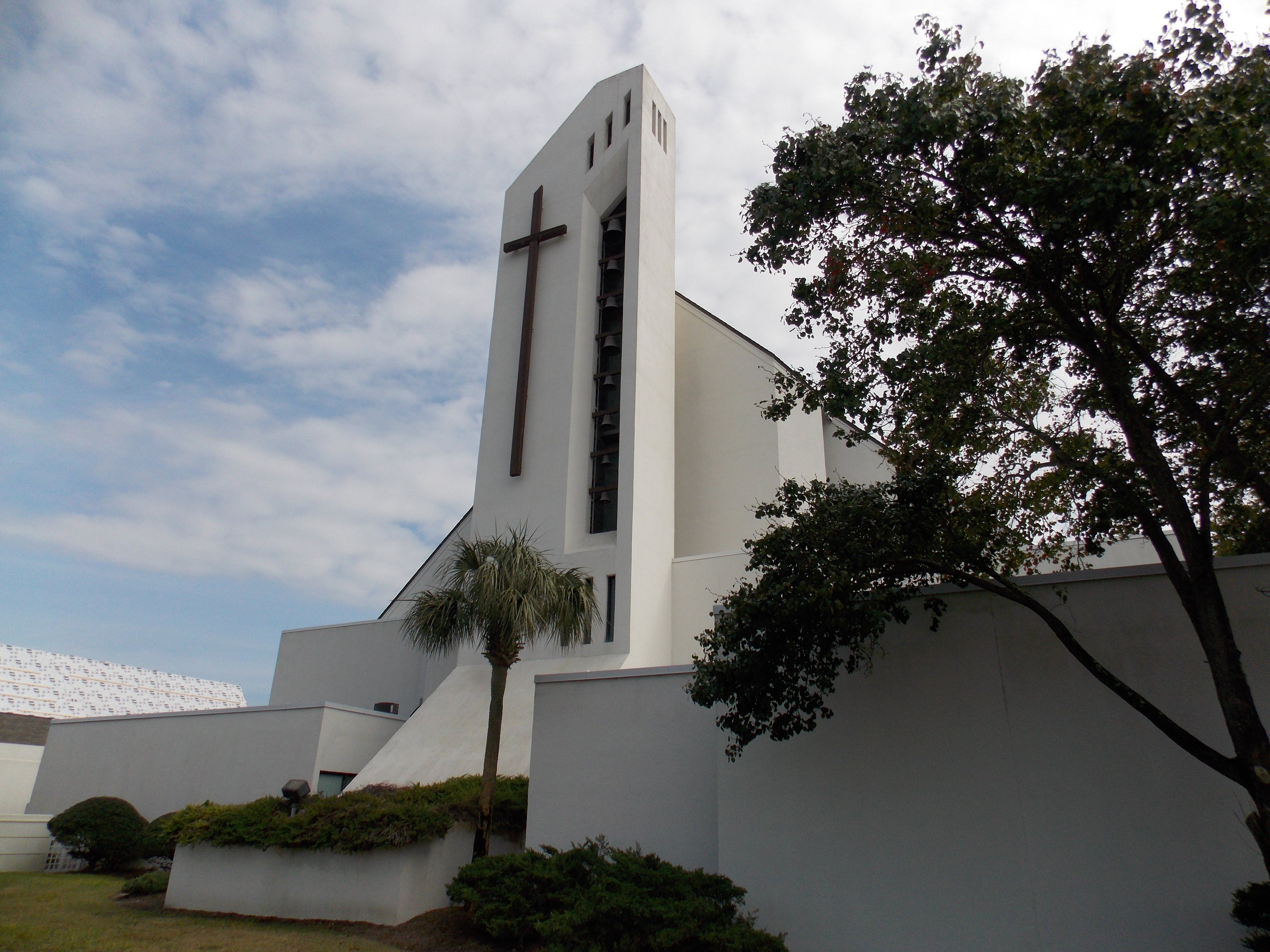 Ocean View Baptist Church on Kings Highway, Myrtle Beach, South Carolina.